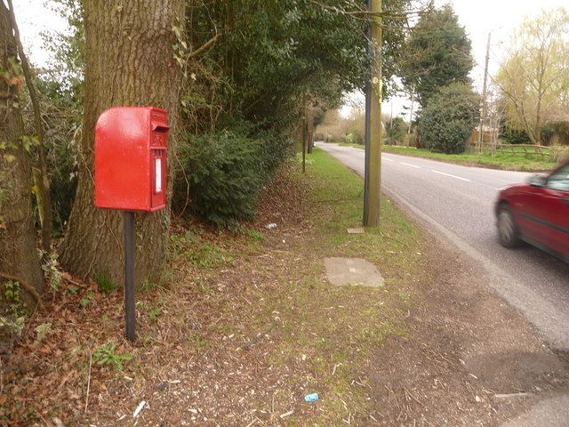 Horton Heath: postbox № BH21 28 This postbox is emptied at 11 o'clock on weekday mornings and at 9 on Saturday mornings. I'm pretty sure it may once have been in the layby a little to the west, where the telephone box used to be.